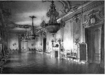 Dining Room of the Prince in the Royal Castle of Budapest.